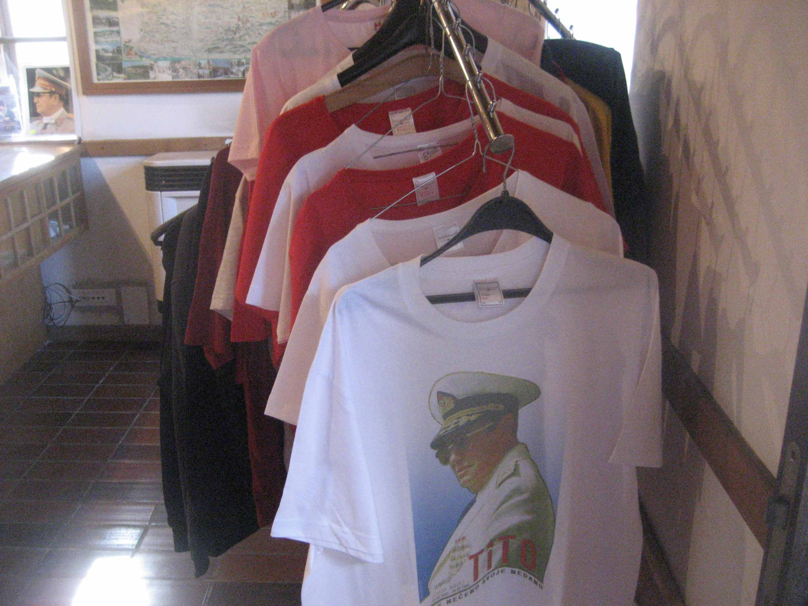 Tito T-Shirts